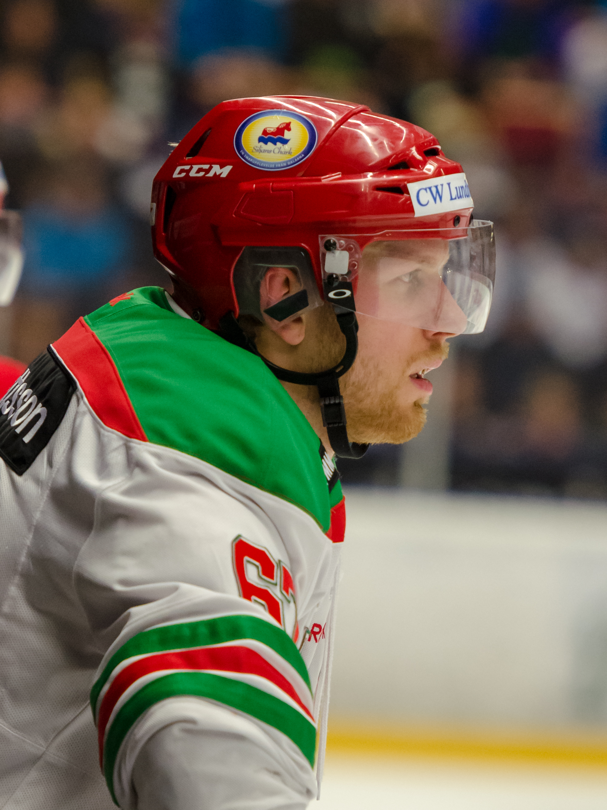 Tobias Ericsson playing for Mora IK in Hockeyallsvenskan (Swedish second league) against Leksands IF 2012-12-29.